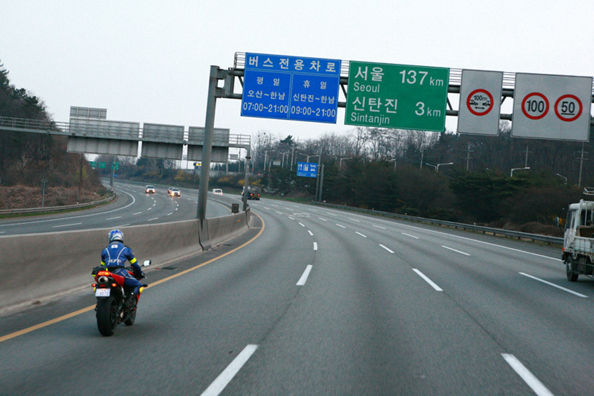 CBR1000RR on the Gyeongbu Expressway, Bus Lane Operating Time sign, Distance Information sign, Minimum Distance Between Vehicles sign and Speed Limit sign